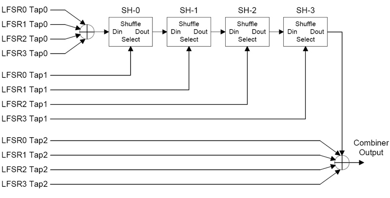 describes the combiner function used in hdcp cipher